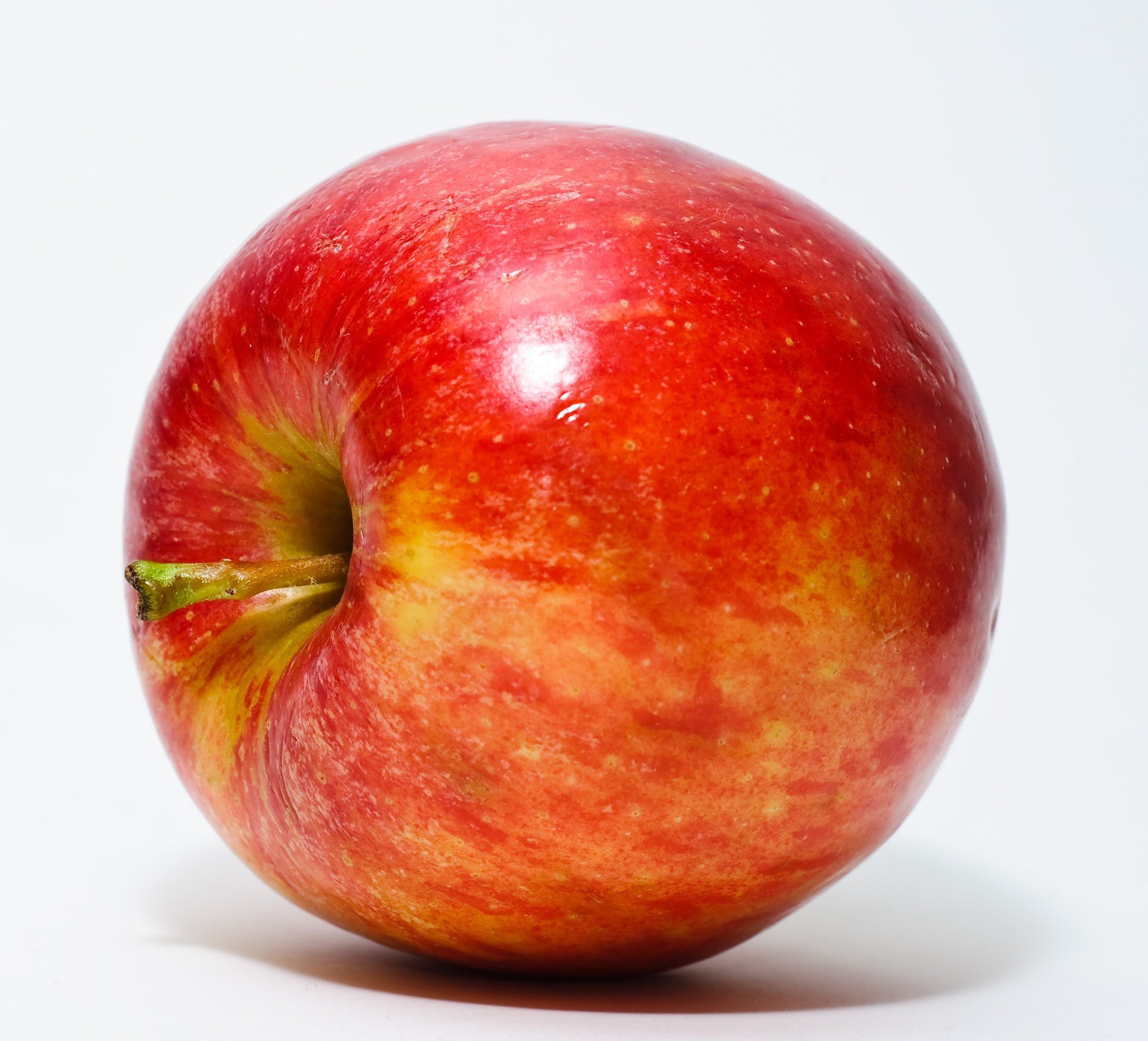 Red Apple. Used white paper behind apple and above apple and bounced SB-600 at 1/4th power.